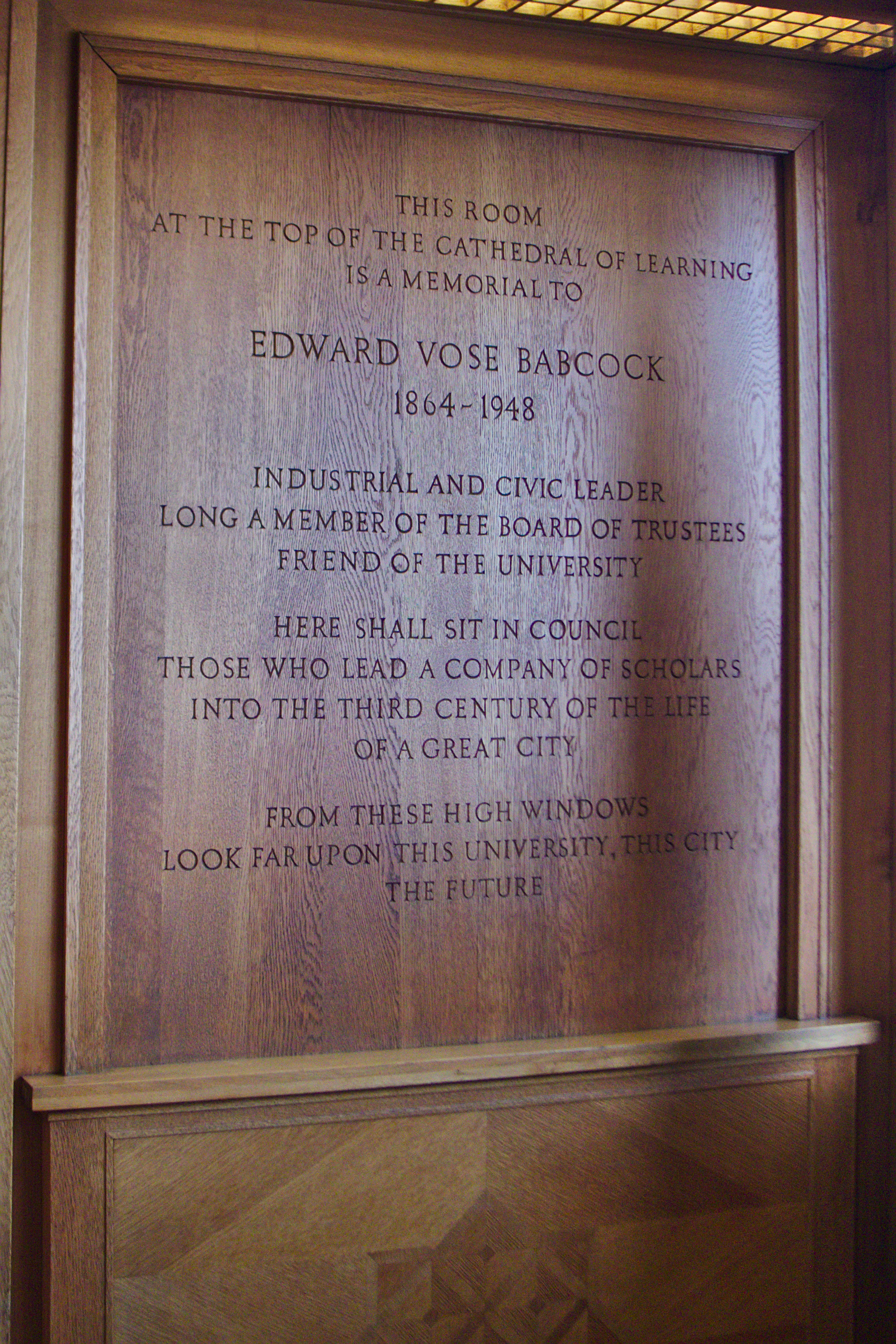 Dedication plaque for the room from which the previous three photos were taken. As far as I can tell this is the topmost floor of the Cathedral of Learning that is open to the public. I suspect there are two or three machinery floors still higher up.